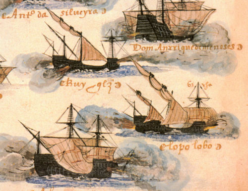 Portuguese_ships_16th_century_Livro_das_Armadas.